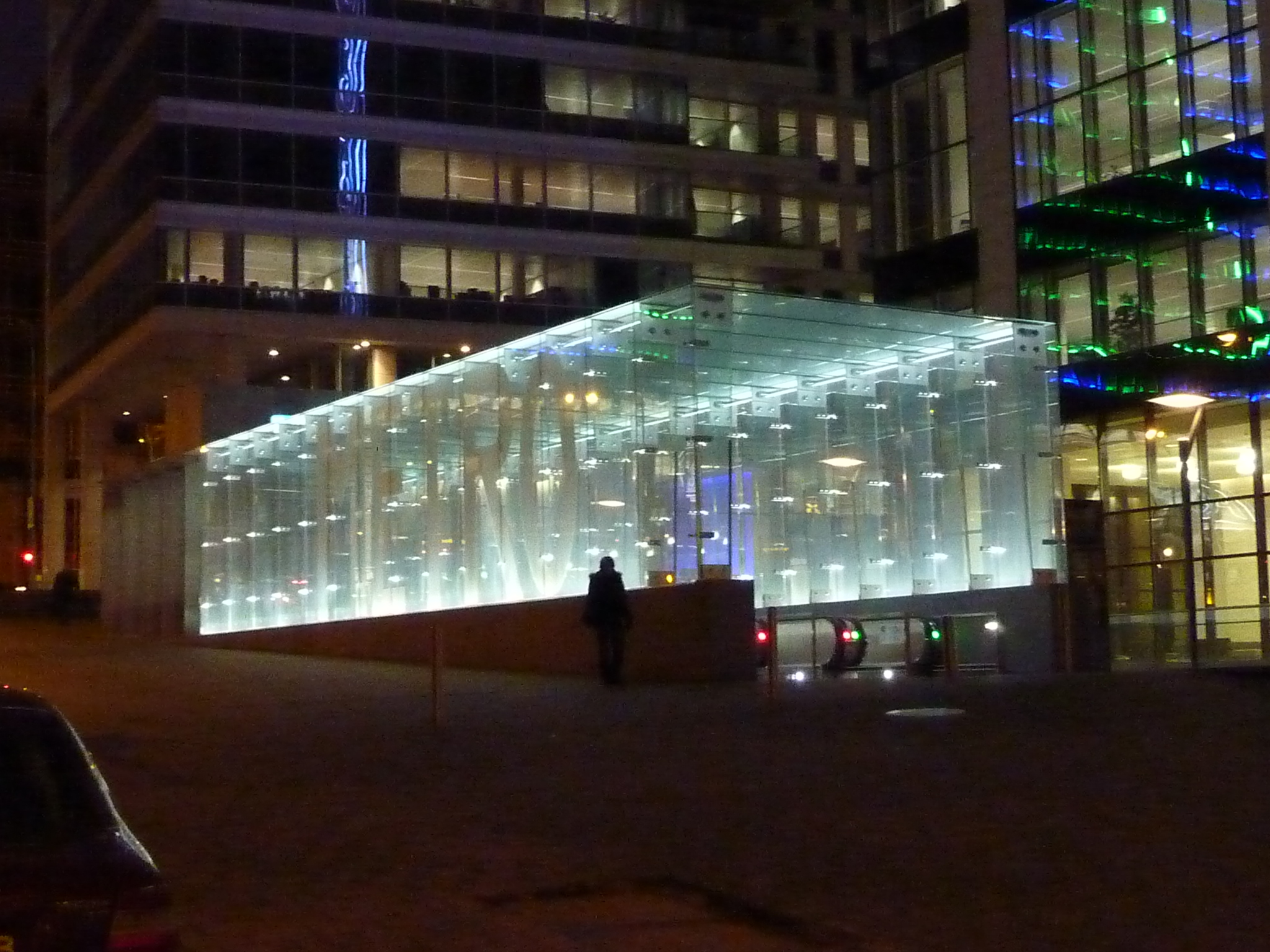 Metrostation Kruidtuin Brussels by evening, December 2010